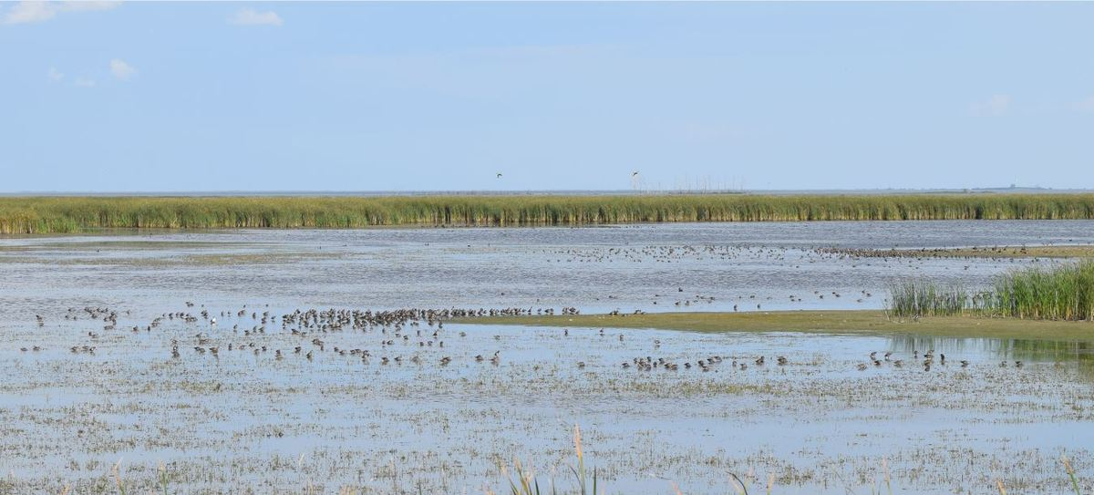 Short-billed dowitchers at Whitewater Lake, Manitoba.